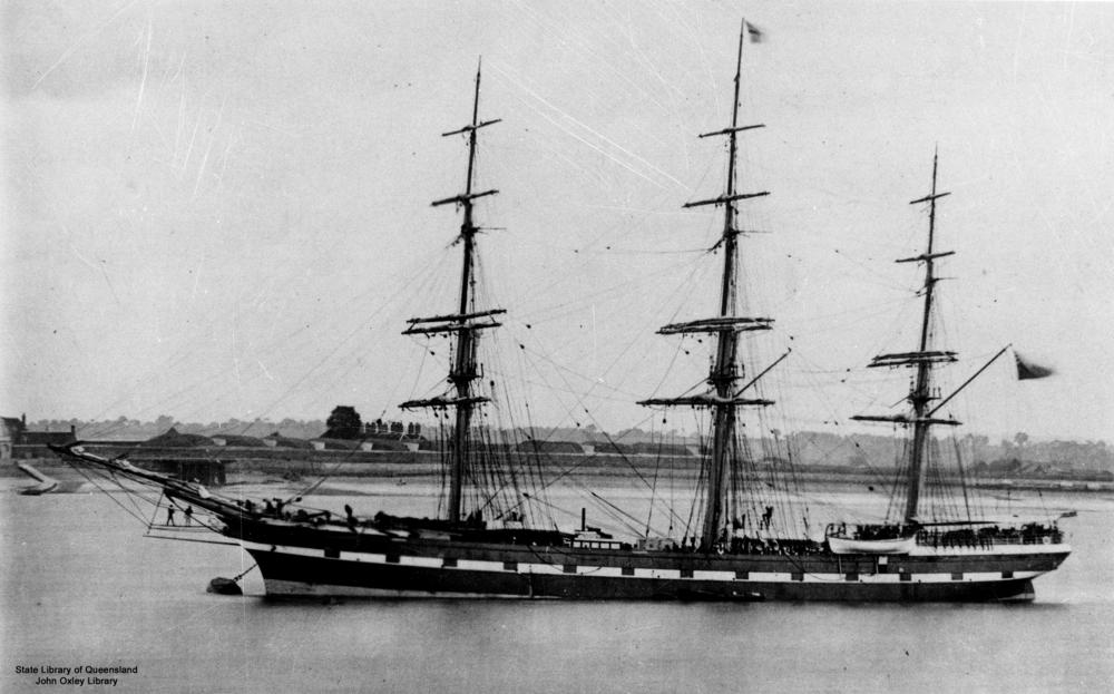 Assaye (ship) Moored on the same stretch of the Thames as The Tweed in another photo